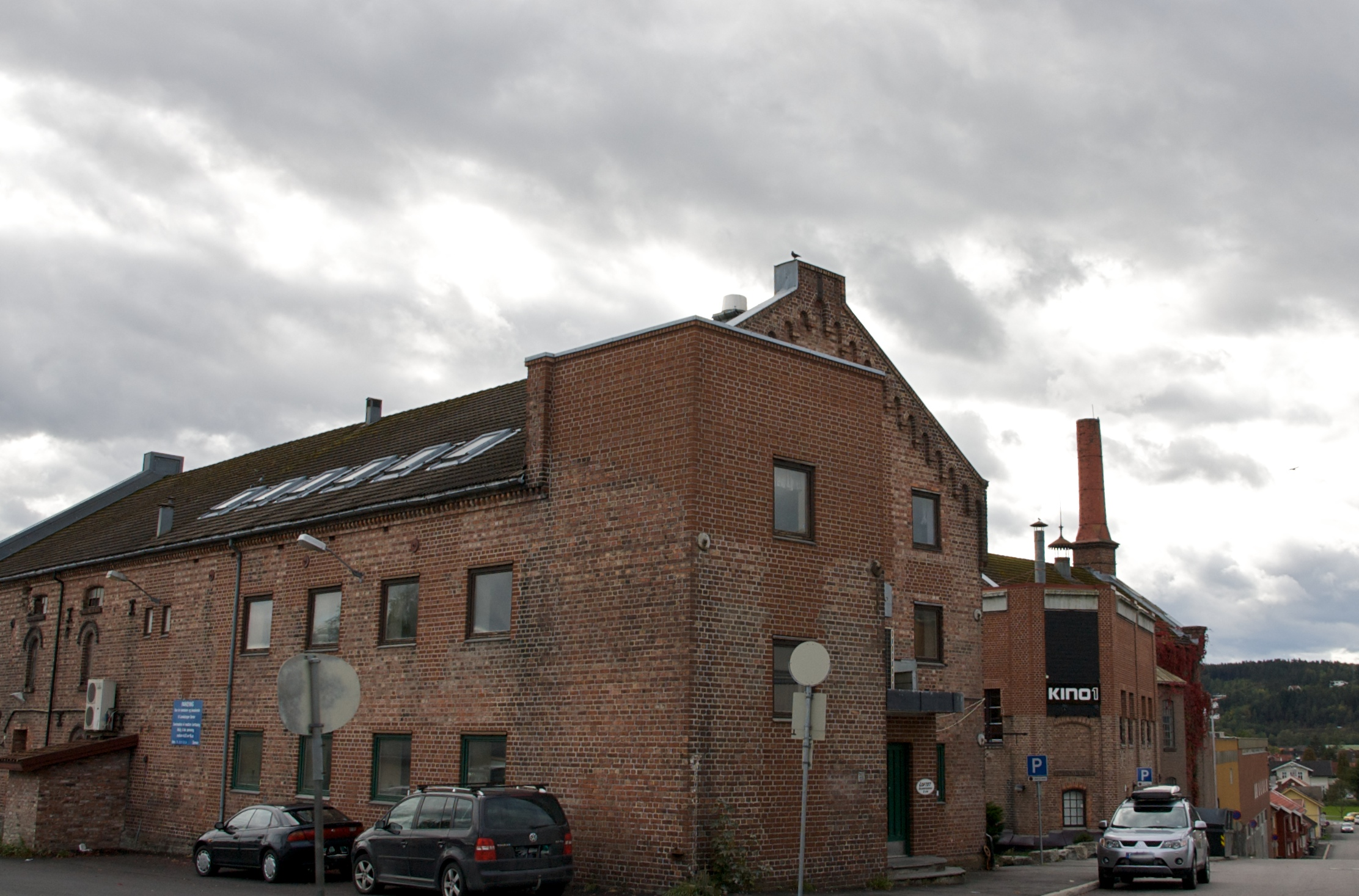 Lundetangens Bryggeri, a brewery in Skien, Norway, closed down in 1986